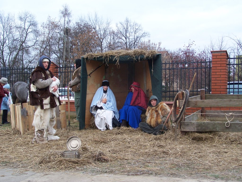 Live ativity scene at St. Wojciech church, Wyszków, Poland